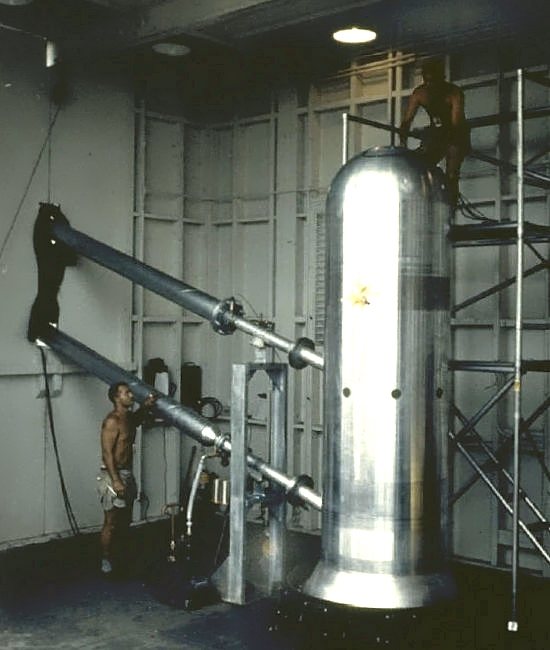 Bassoon Prime, three-stage thermonuclear weapon, before test explosion on July 20, 1956, at Bikini, as shot Tewa of operation Redwing. Yield 5 megatons. Prototype for the 25-megaton Mark 41 bomb. Bassoon, the prototype for a 9.3-megaton clean bomb or a 25-megaton dirty bomb. Dirty version shown here, before its 1956 test. The two attachments on the left are light pipes - see below for elaboration.